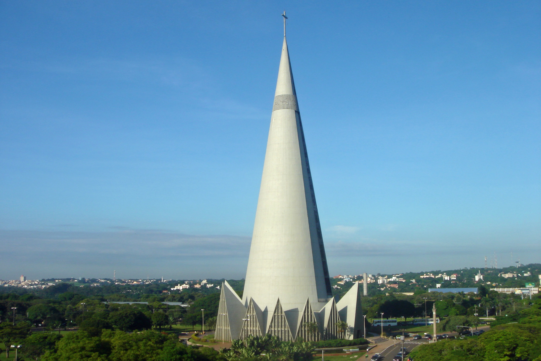 Cathedral of Maringá, Paraná, Brazil